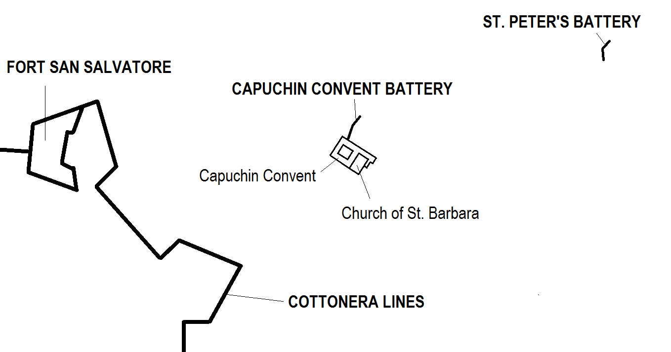 Map of Capuchin Convent Battery and St. Peter's Battery in Kalkara, Malta. The Cottonera Lines and Fort San Salvatore can be seen to the right.